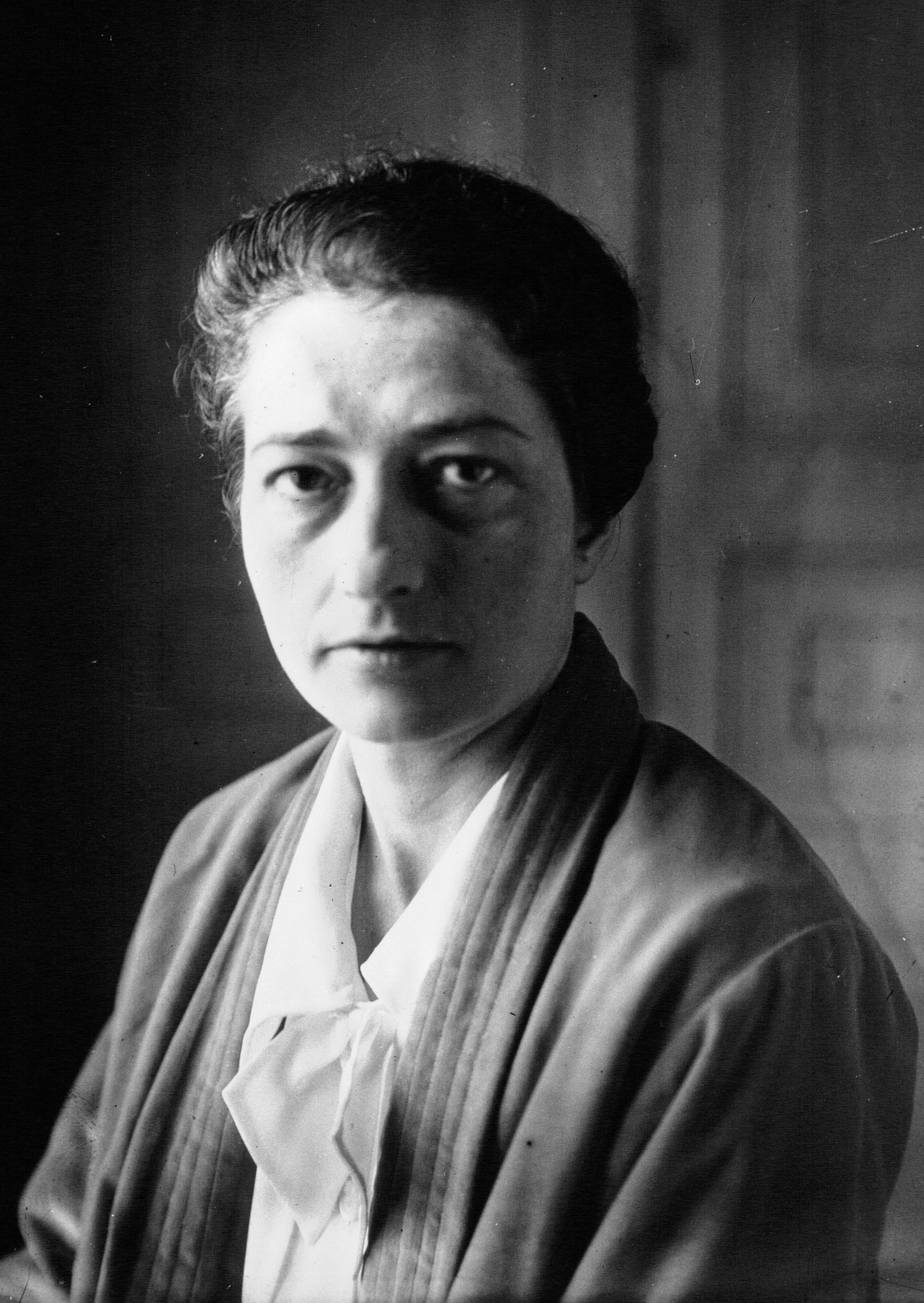 Therese Bertrand (1895-1987), French physician, she was the first woman to be Physician of the Paris hospitals; member of the French Academie de medecine. Photo Agence Meurisse, 1930. Source BNF Gallica, public domain.